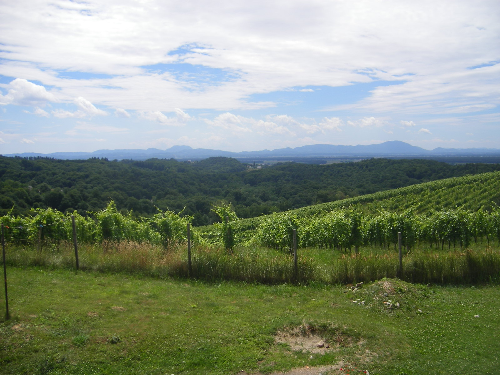 Zgornja Korena (municipality Duplek) - view toward the Pohorje